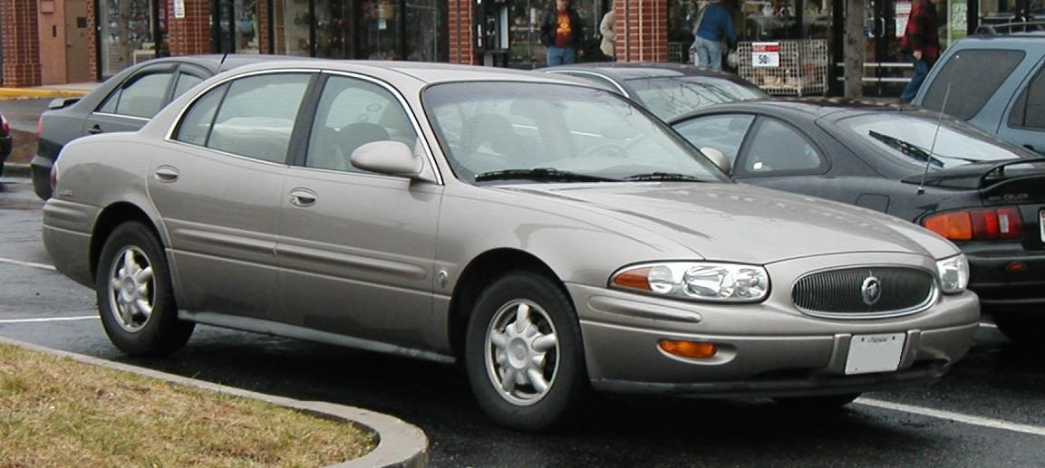 2000-2005 Buick LeSabre photographed in USA.